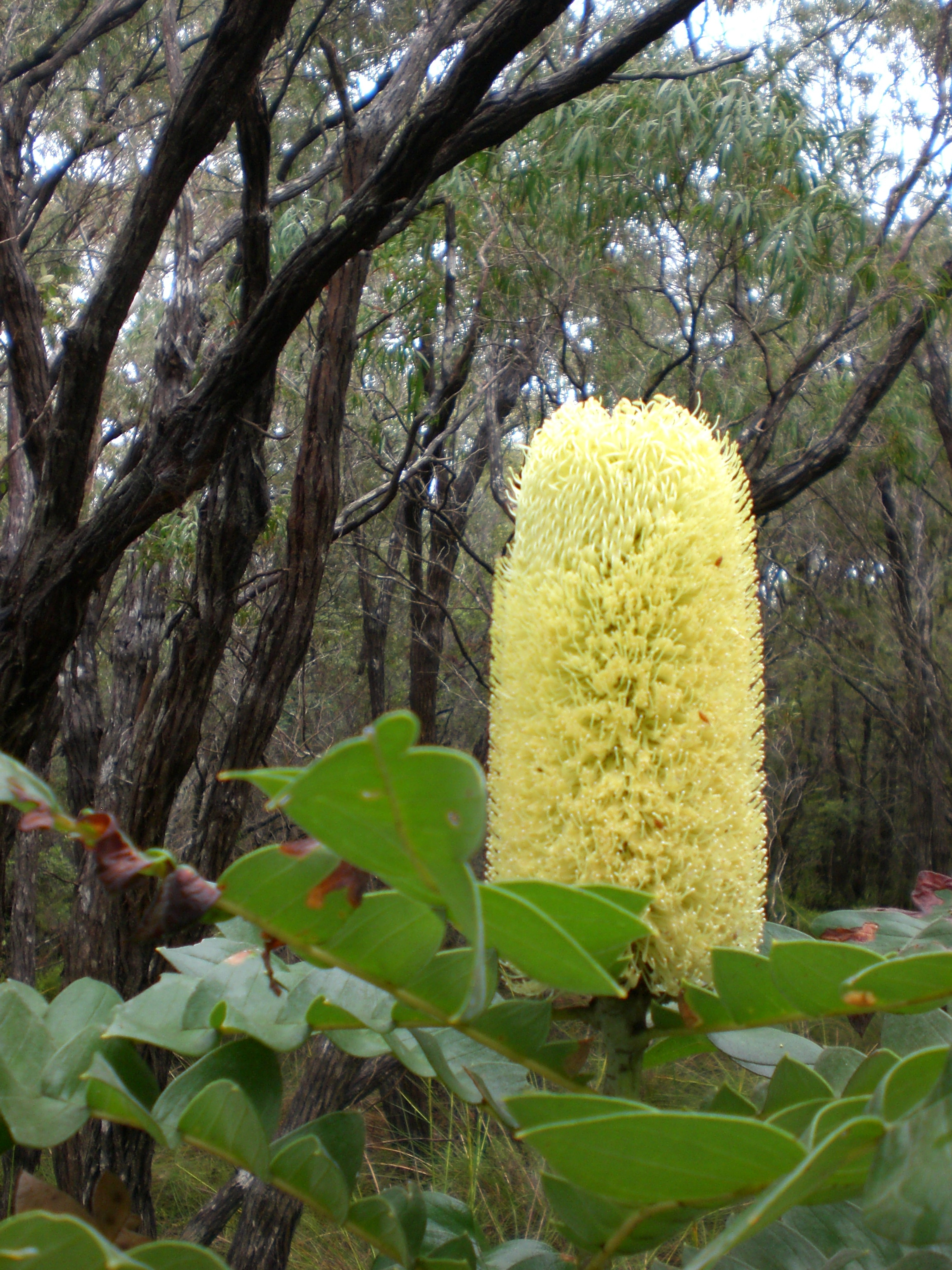 An example of the plant species Banksia grandis near Torndirrup National Park.